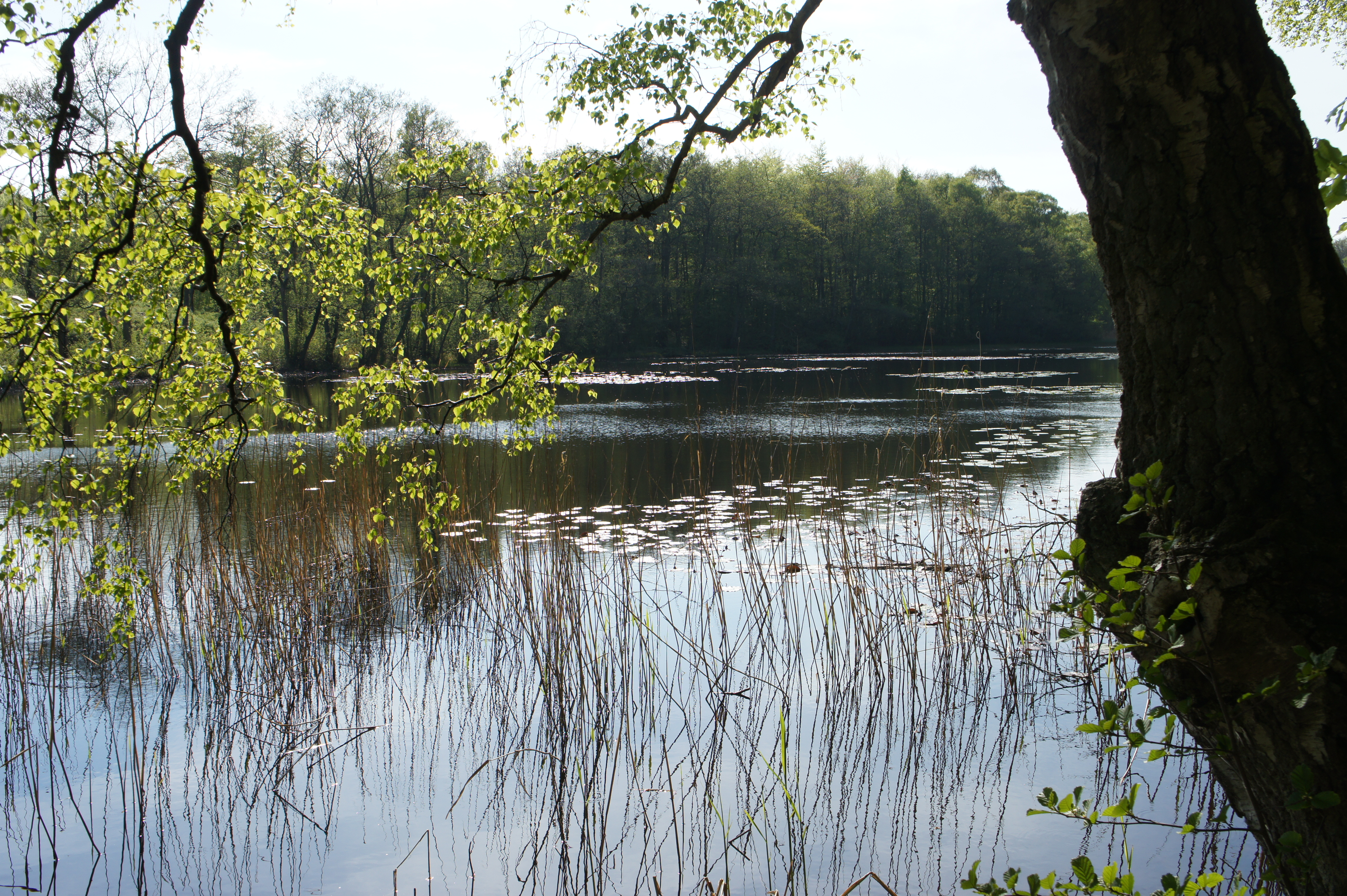 Mölle mosse, a small lake at Kullaberg Sweden